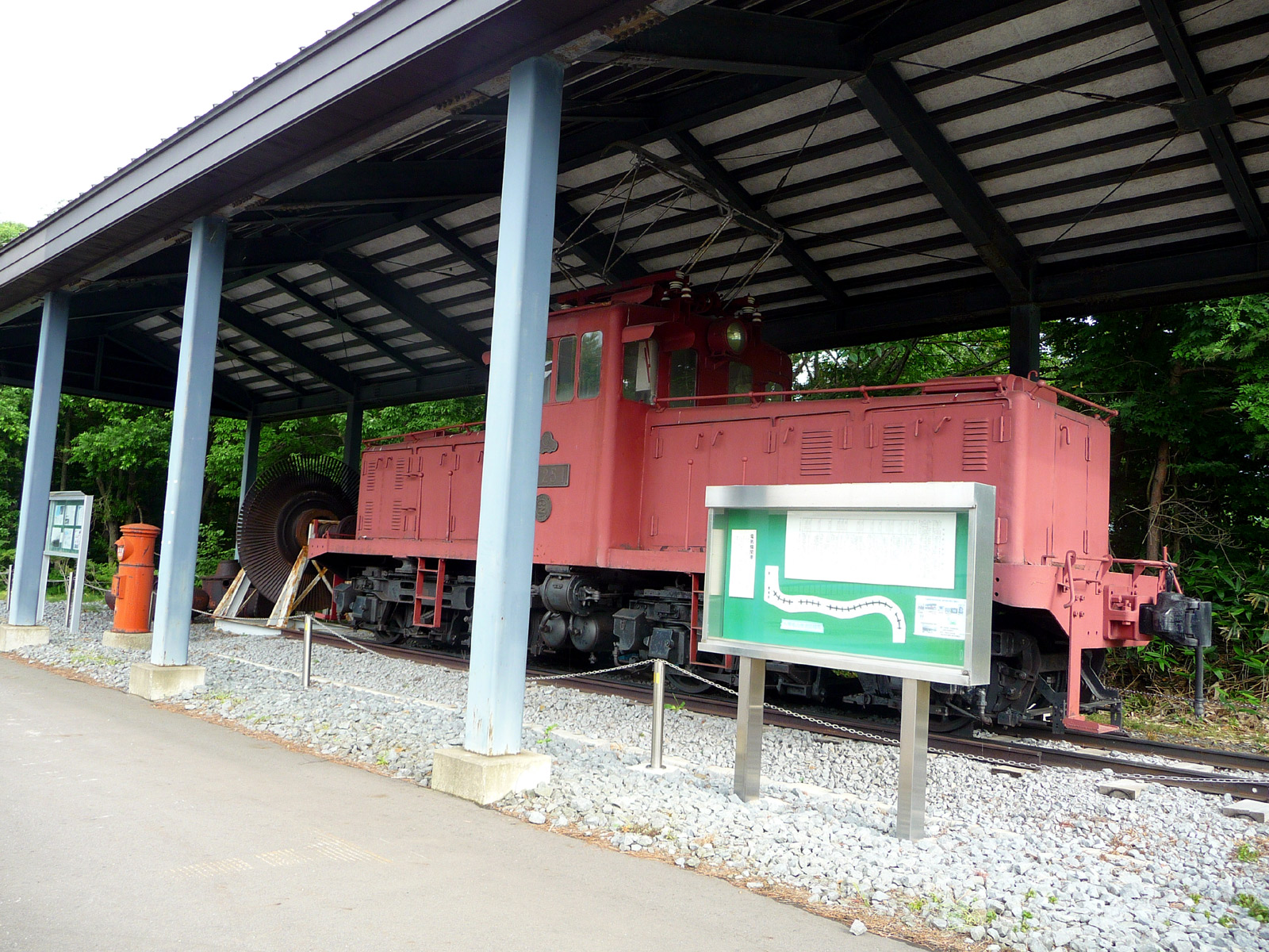 Matsuo Kogyo Testudo (Matsuo Mining Railway) ED251 electric locomotive preserved at the Matsuo History and Folk Resource Center in Hachimantai City, Iwate Prefecture, Japan